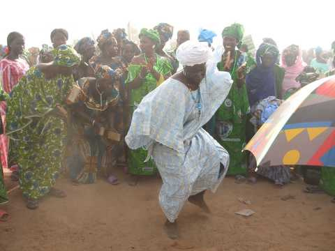 Mandinka Dancing